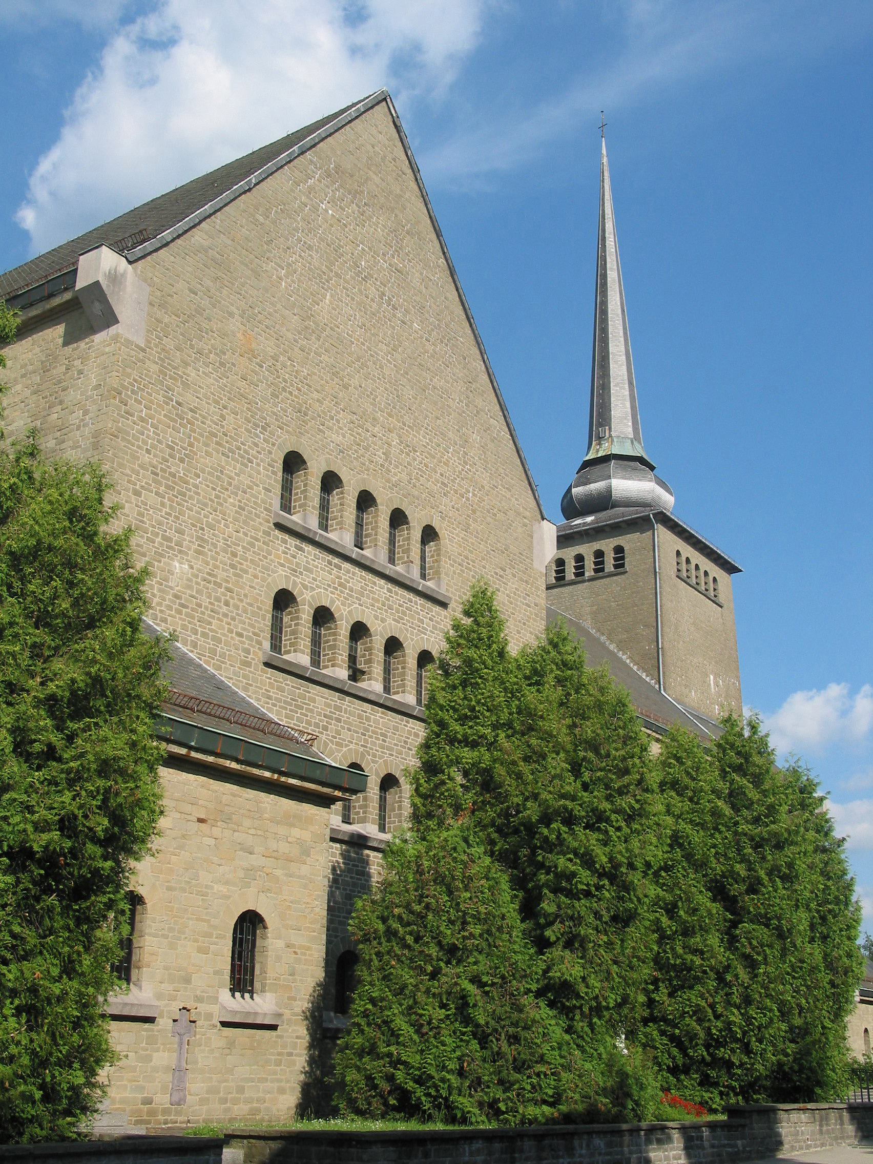 St. Vith (Belgium), the Saint Guido's church.